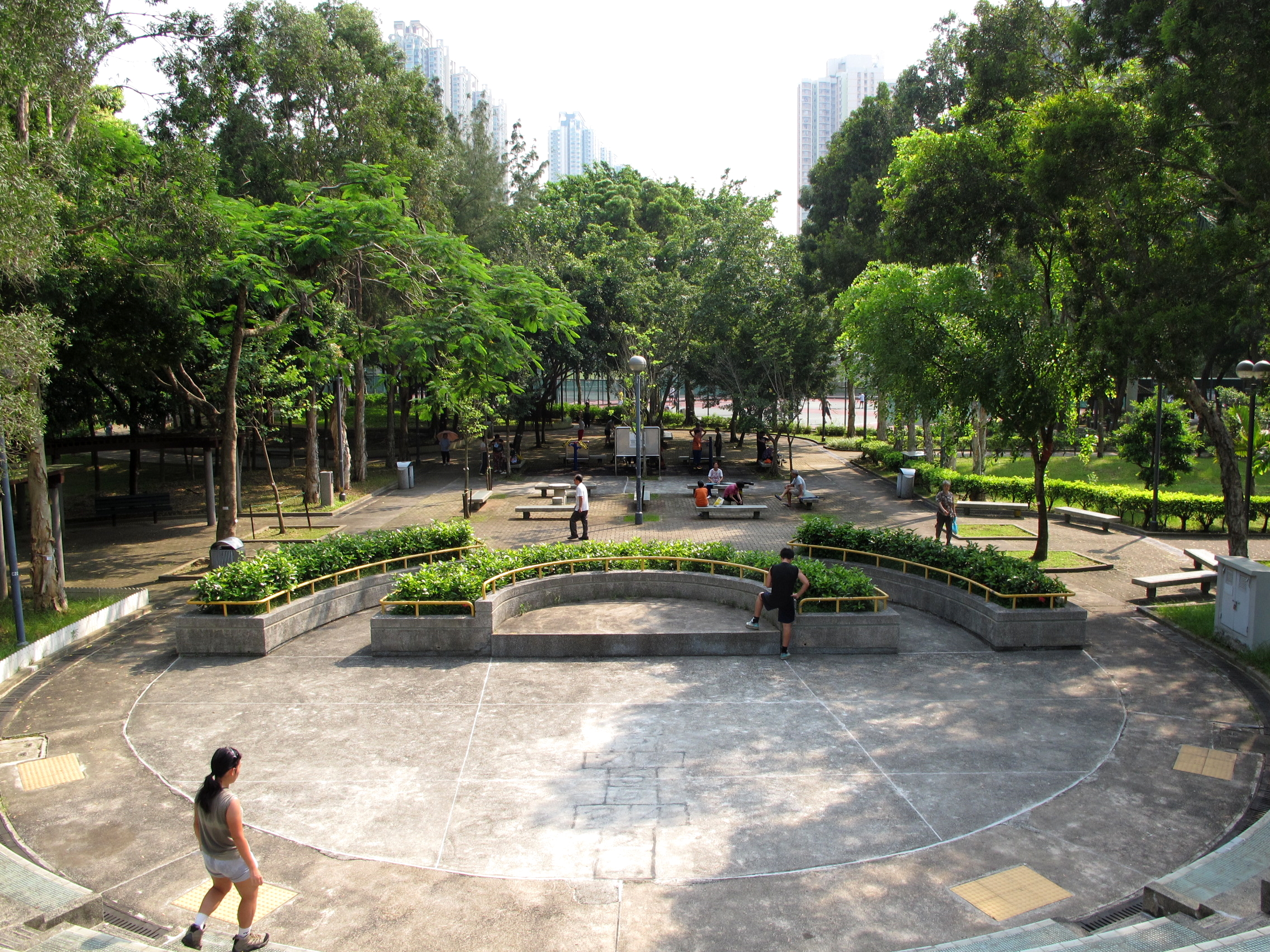 Hin Tin Playground